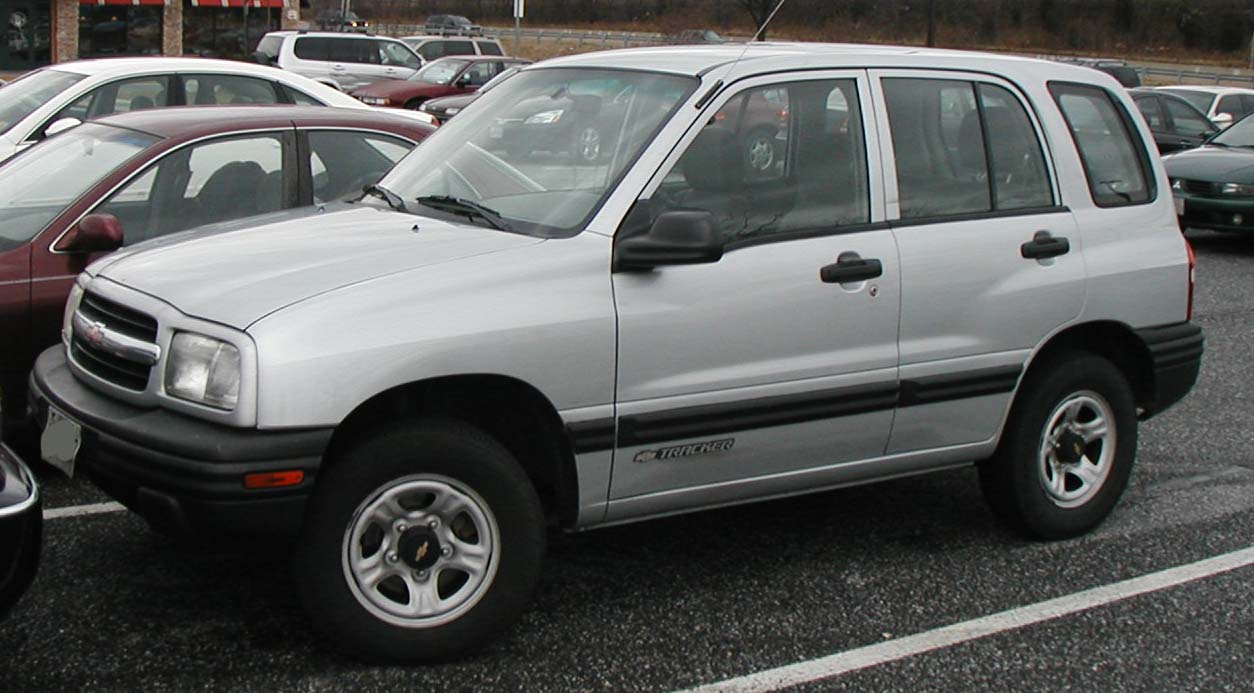 1999-2004 Chevrolet Tracker photographed in USA.